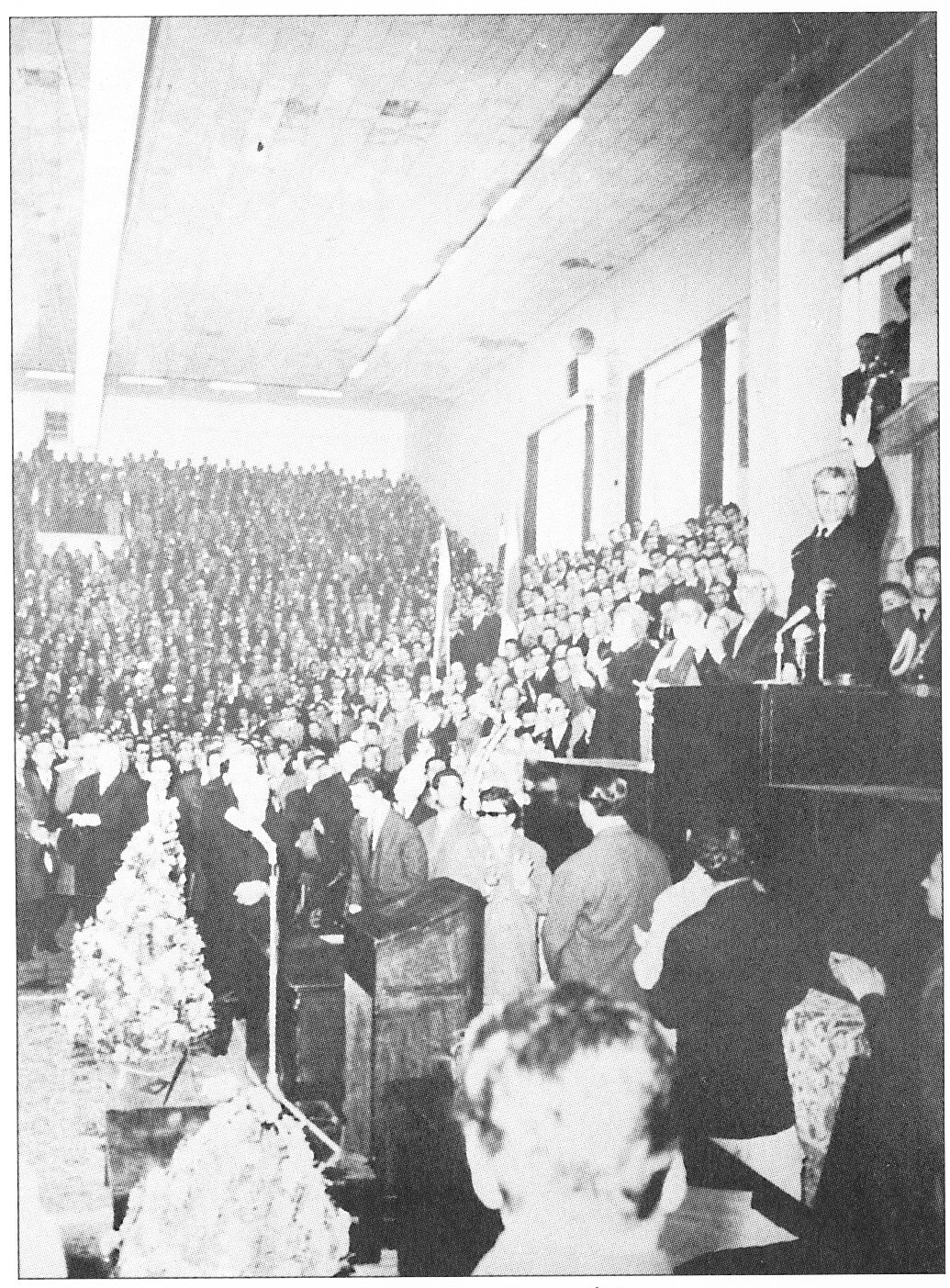 Shah Mohammad Reza Pahlavi, speech at National Farmers Congress, 1963